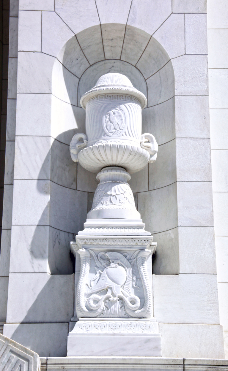 Decorative funerary urn on the south side of the apse at Memorial Amphitheater in Arlington National Cemetery in Arlington County, Virginia, in the United States. An identical urn stands on the north side of the apse. These decorative urns are not original to the amphitheater. The original urns were removed in the mid-1990s when Memorial Amphitheater was renovated.